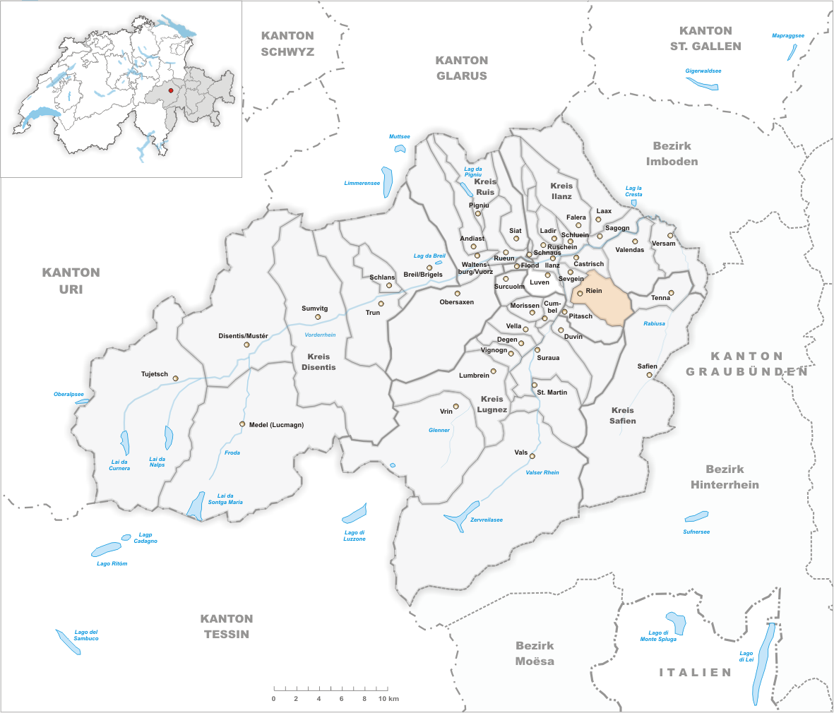 Municipality Riein